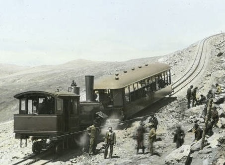 Title: Rounding Windy Pt. Manitou & P.P. Ry., Colo. Creator: Jackson, William Henry, 1843-1942 Date: ca. 1898-1902 Part Of: Lantern slides of Mexico, California and Colorado Description: When William Henry Jackson started working for the Detroit Photographic Company (later Detroit Publishing Company) in 1897, he turned in to the company his previously made negatives. New assignments often included photographs of the U.S. West like Colorado, Wyoming and California, sometimes for distribution companies, such as T.H. McAllister in New York. Physical Description: 1 slide: lantern; 8.3 x 10 cm. Form/Genre: Glass transparencies; Lantern slides File: ag1984_0301_9000_opt.jpg Rights: Please cite Southern Methodist University, Central University Libraries, DeGolyer Library when using this image file. A high-quality version of this file may be obtained for a fee by contacting . For more information, see: View U.S. West: Photographs, Manuscripts, and Imprints at